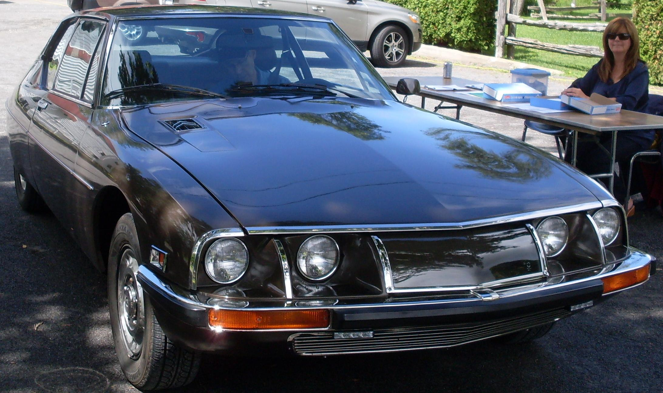 Unknown vehicle photographed in Baie-D'Urfé, Quebec, Canada at Auto classique VAQ Baie-D'Urfé.